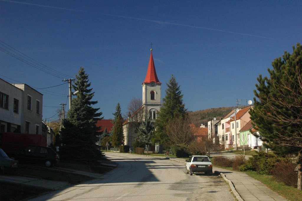 Častkov, St. Cyril and Methodius church